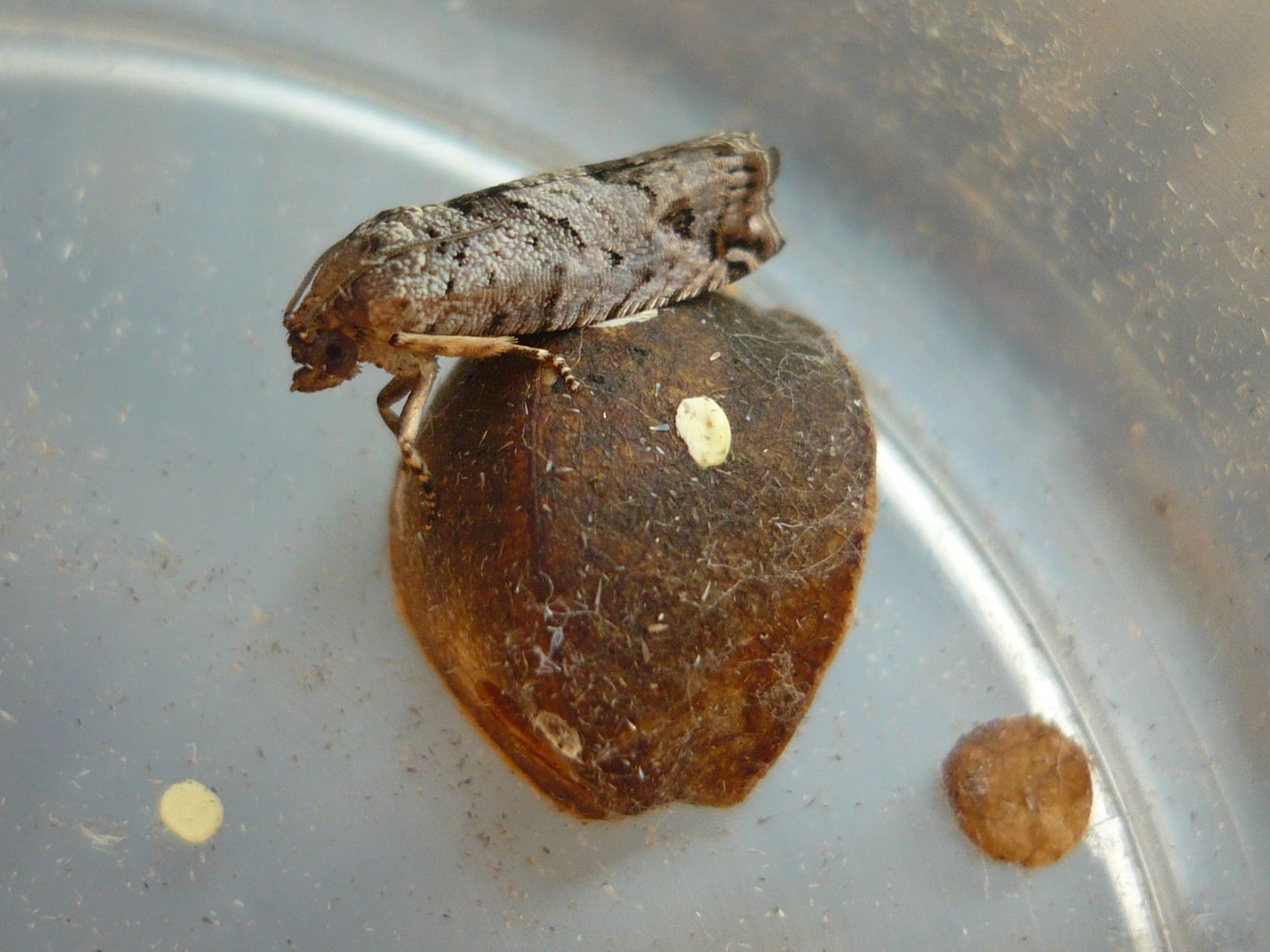 It's a Mexican jumping bean and the moth that just left it.